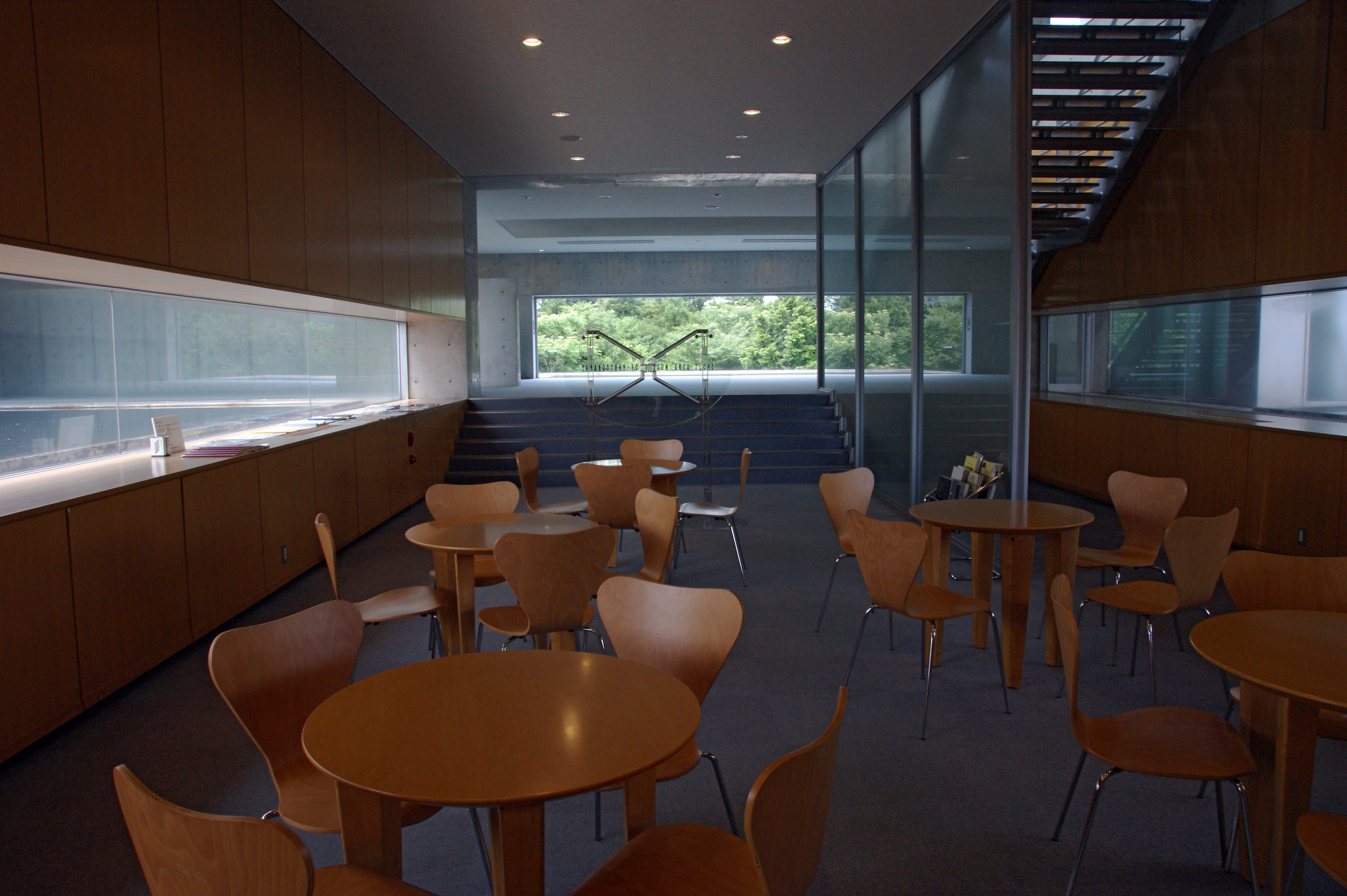 Shoji Ueda Museum of Photography in Hōki, Tottori prefecture, Japan